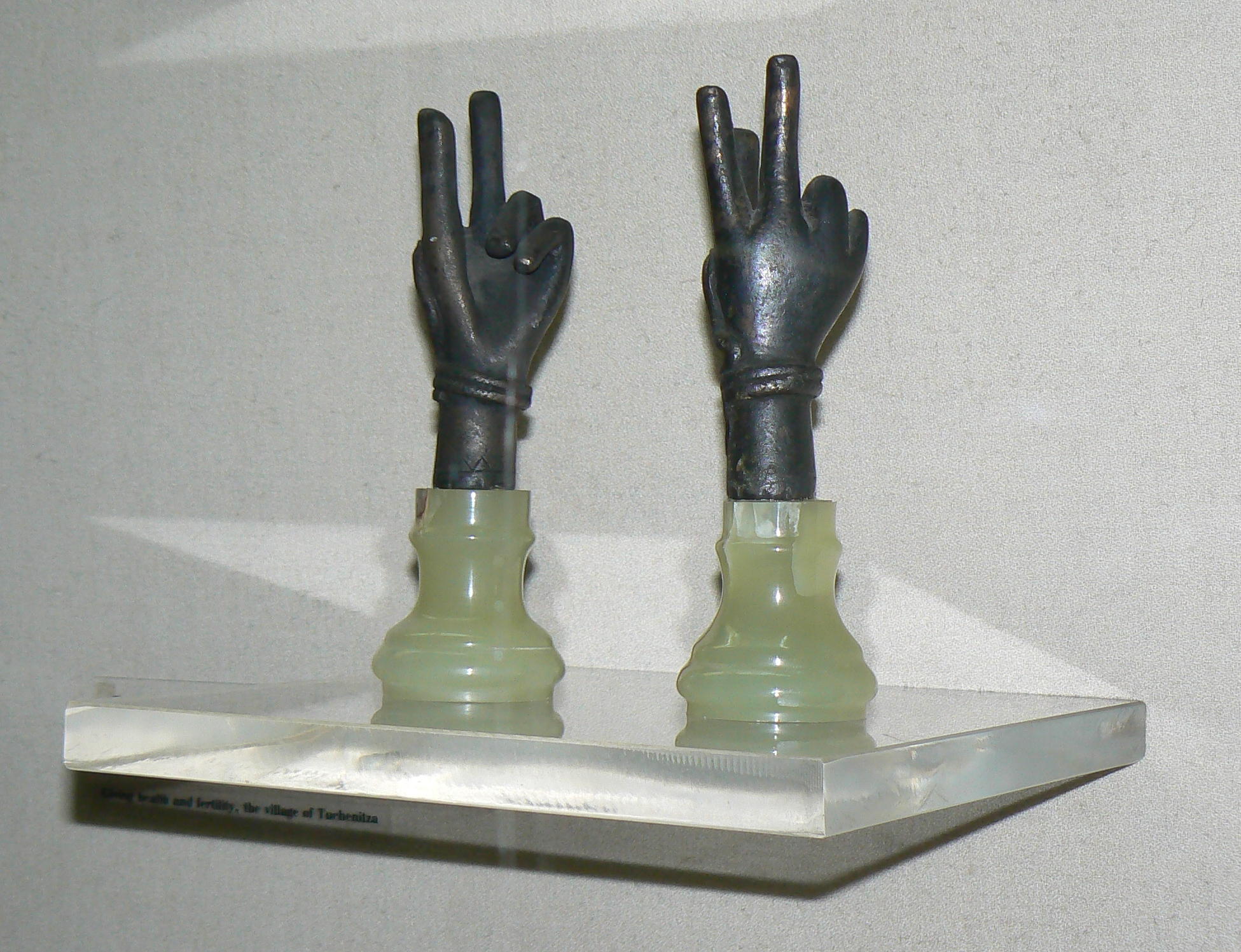 Little statues of the sign of the thracian god Sabazius (Dionysos) in Pleven history museum, Bulgaria